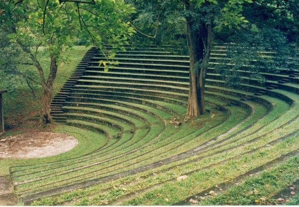 My own work. Taken by me in 2004